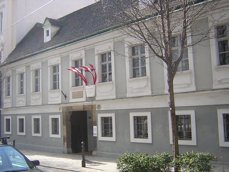 House of Joseph Haydn in Vienna, now a Haydn museum.